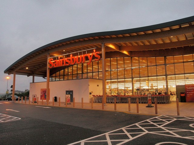 Britain's greenest supermarket, Dartmouth This new timber-framed store on the edge of Dartmouth opened on August 18th. "Sainsbury's claim that the new store in Devon will use 50 per cent less energy from the national grid and produce 40 per cent less CO2 than a normal store ... it uses rainwater to flush customer toilets and wind turbines to power its checkouts ... boasts 38 different energy-saving measures including a biomass boiler burning wood chips to provide heating, LED lights and solar powered fans". Since the store does not appear on any map or satellite image, it's possible that this image is in the wrong square.